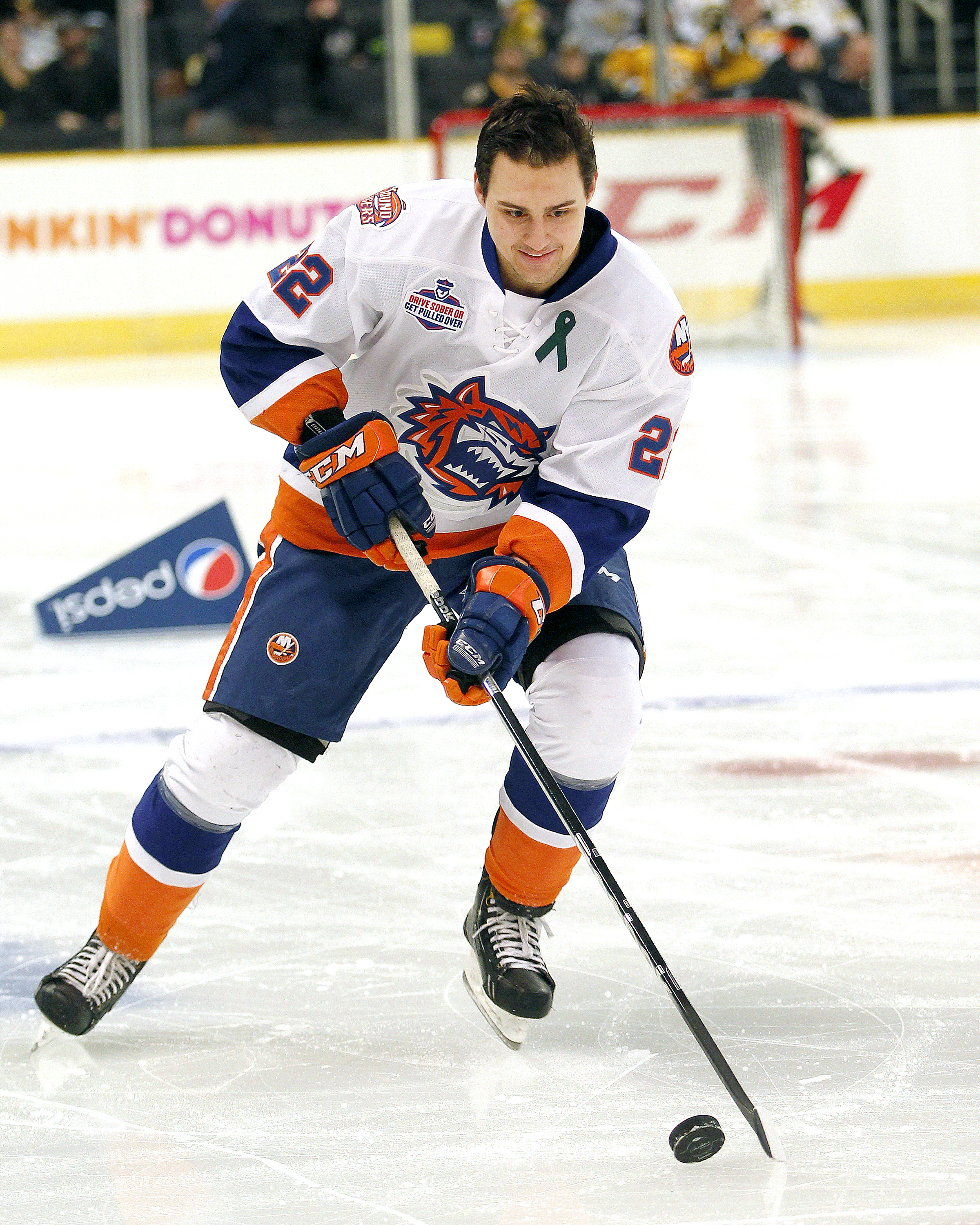 Niederreiter3 American Hockey League (AHL). 2013 All-Star Skills Competition. Taken on January 27, 2013.